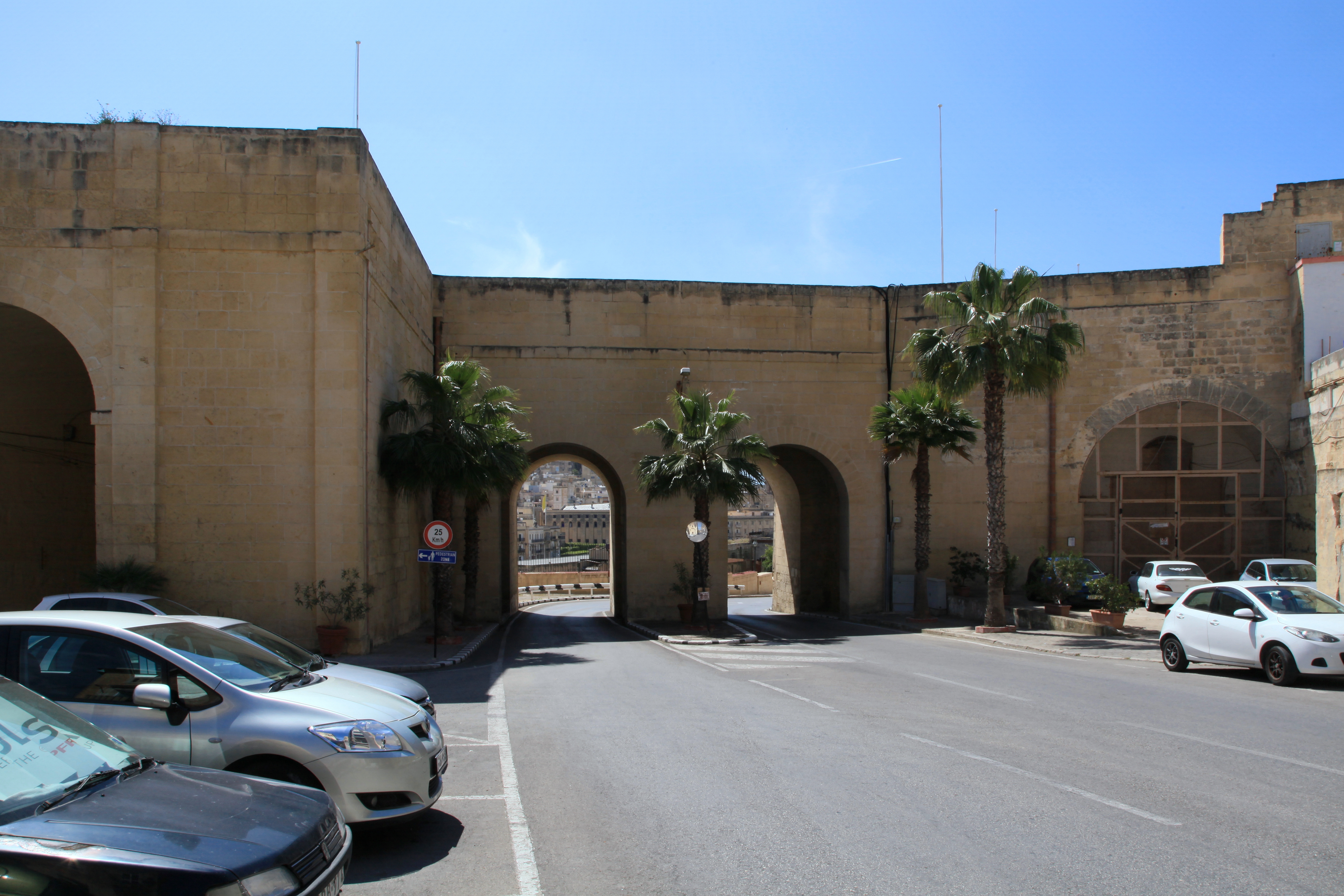 Senglea Main Gate and Saint Anne Gate at Pjazzetta Ġorġ Mitrovich in Senglea, Malta